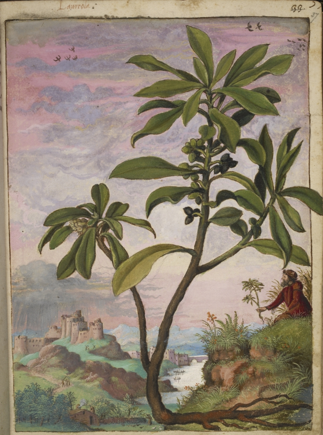 Daphnoides or 'Daphne Laureola' (Spurge-laurel) with a botanist (possibly Cibo himself) gathering plants on a mountainside and a fortified town and river in the background.